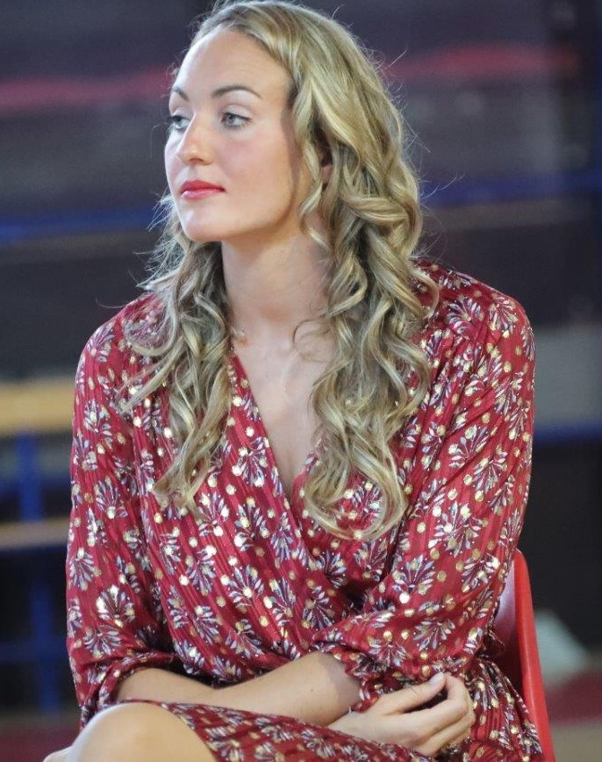 Carlotta Zofkova in 2019